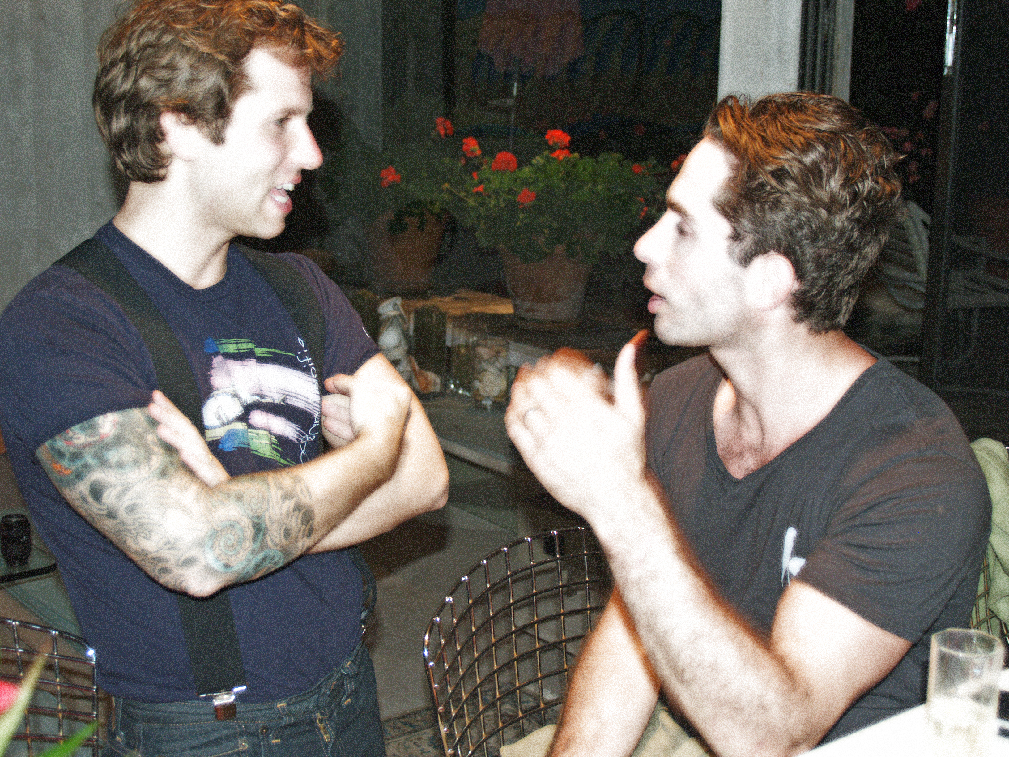 I liked this photo, but technically it was rather poor. So for the first time, I used a Photoshop filter - Diffuse. That's why they are so bleached out, which made it a far more interesting image. This image is licensed Creative Commons and is part of a public art project. Click here to see more.